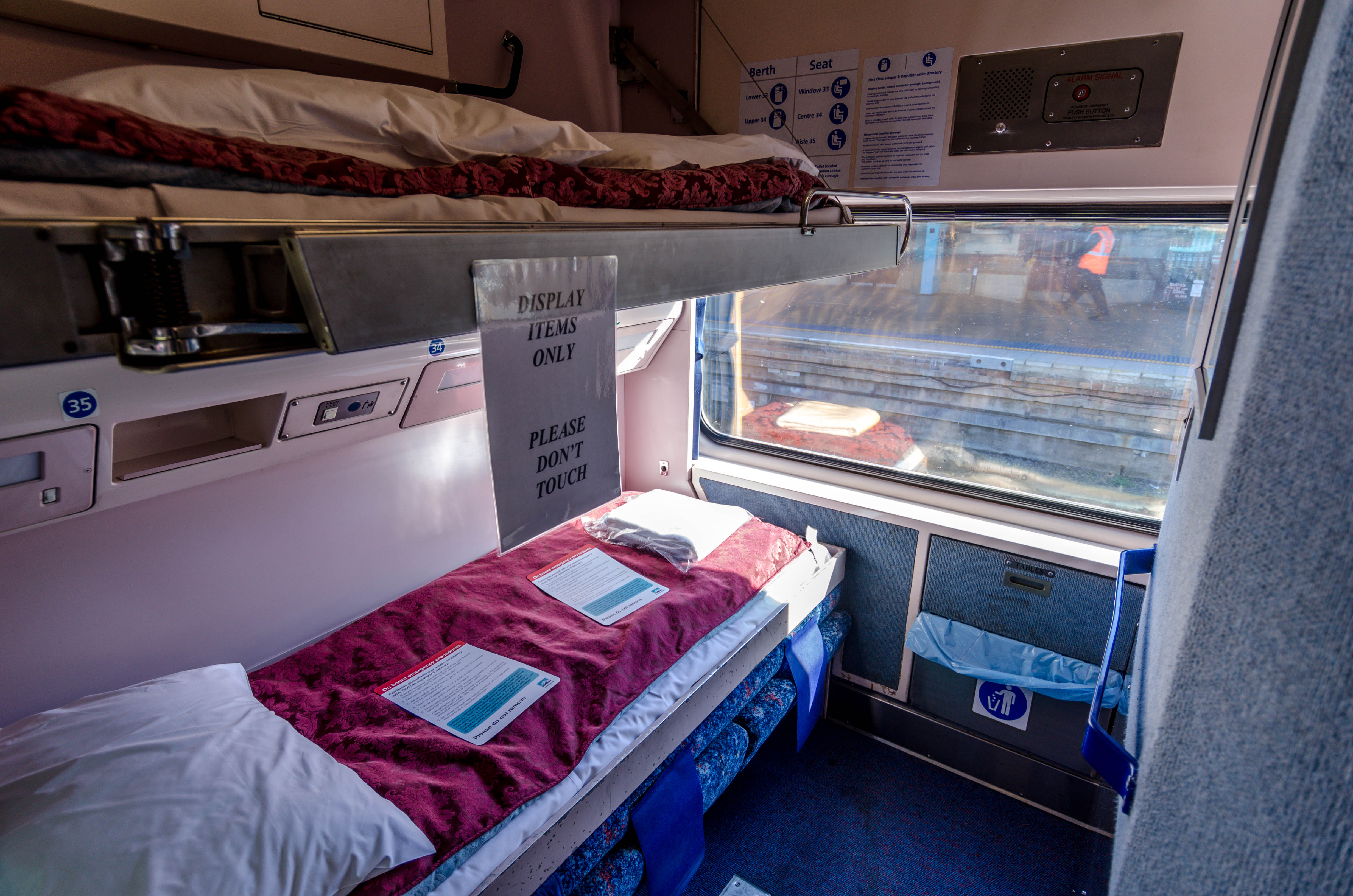 NSW TrainLink XPT Sleeping Cabin Twin